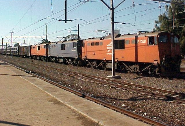 SAR Class 6E1 Series 3 no. E1320 Location: Christiana, North West Province Rebuilding: c. 2014 no. E1320 re-entered service as Class 18E no. 18-788